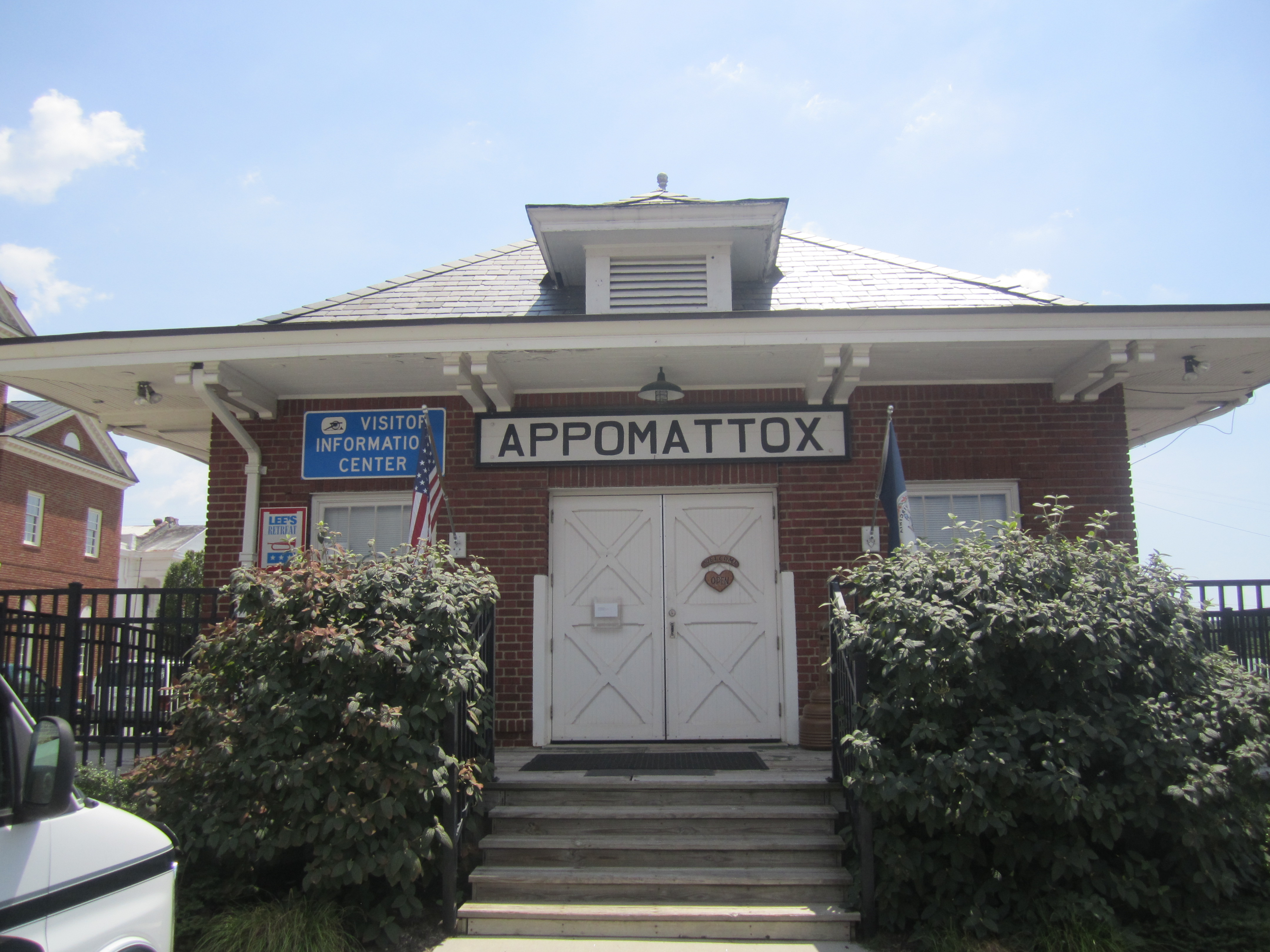 I took photo with Canon camera of former train station in Appomattox, now the visitor center.